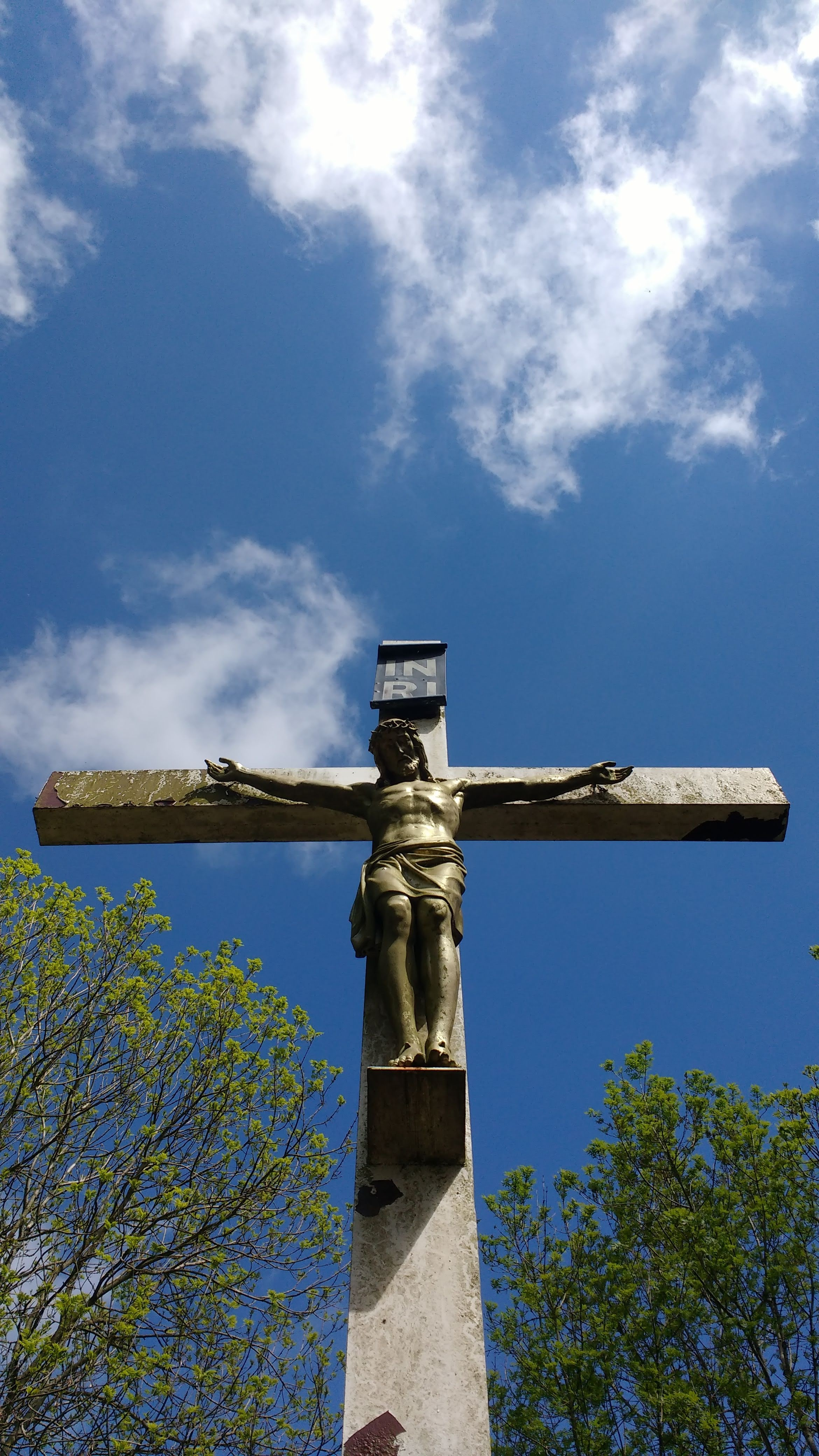 Pantasaph